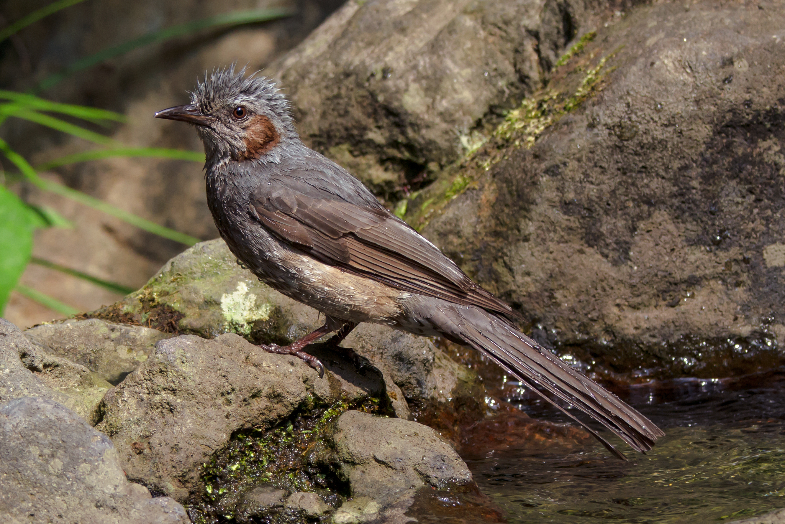 Brown-eared bulbul after playing with water.